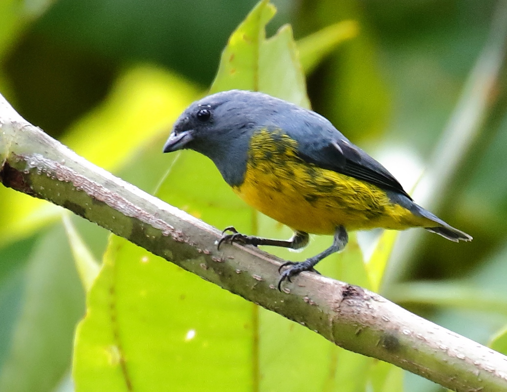 Plumbeous euphonia (male) at Presidente Figueiredo, Amazonas, Brazil